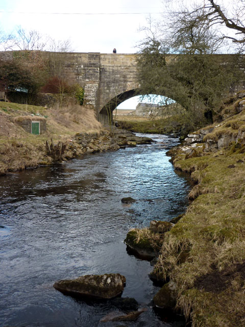 Dibbles Bridge The stream appears to change its name hereabouts. Above the bridge it is called the River Dibb and some way below it seems to become Barben Beck. Despite this there are names downstream which suggest "Dibb" may be the true moniker (Dib Side and Dib Well). Stephen Craven adds: "A shoemaker who made shoes for the monks of Fountains Abbey was returning one night from the abbey with a sackful to be repaired, and fell asleep by the ford here. When he awoke he found a stranger by him who asked the way. The shoemaker told him, and the stranger asked what he would like in return. 'A bridge over this river so that I could cross it dry in flood times.' said the shoemaker. 'Come here next Sabbath morning', said the stranger, 'and it will be there'. The neighbours laughed when the shoemaker told his tale in Thorpe, and during the week one or two went to look, and laughed still more. They went in crowds on the Sunday morning, and the bridge was there. Ever after that it was called 'the Devil's bridge'." Source, local historians Marie Hartley & Ella Pontefract in their 1938 book on Wharfedale (Marie only died in 2006, aged 100!).